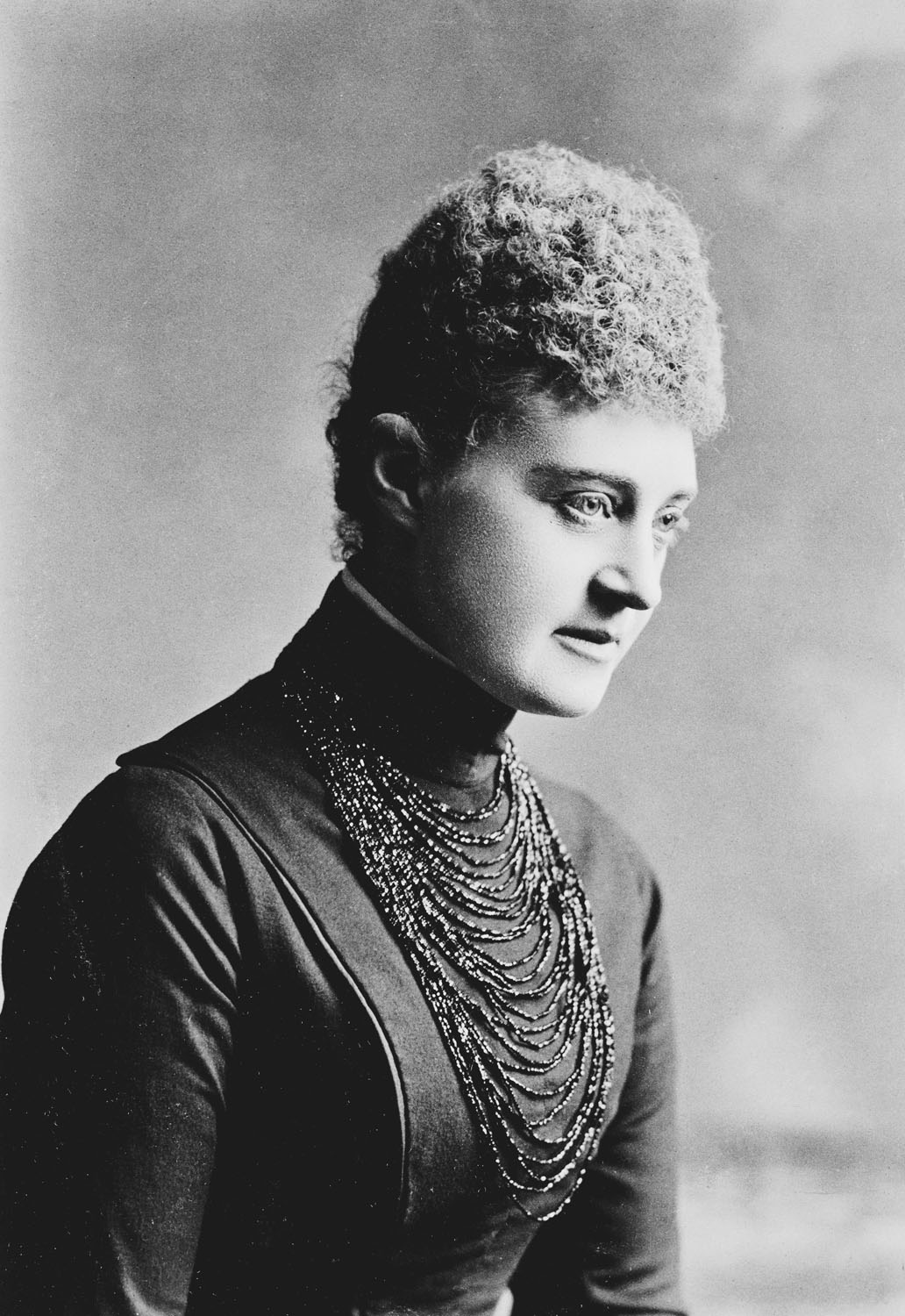 Half length portrait of Princess Frederike of Hanover, facing 3/4 left and wearing a black dress and beaded jet necklace.